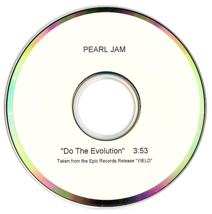 "Do the Evolution" by Pearl Jam US promo stand-alone CD